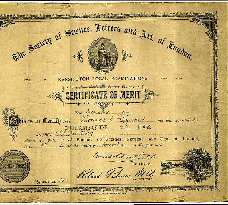 Society of Science, Letters and Art certificate, presented to Florence K Spencer aged 20 for her oil painting, 18 December 1894. The image of the Latin seal carries the date MDCCCLXXXI (1881), so presumably this is the date of inauguration of the Society.